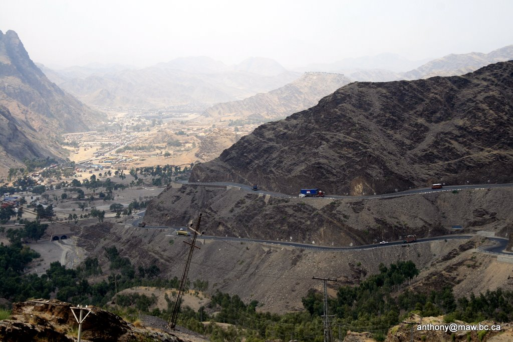 Khyber Pass, North West Frontier Province, Federally Administered Tribal Area of Pakistan, descending northwards towards Afghanistan. The actual borderline is at the second row of hills (in the sunshine) and there are white numbers marked on the ridgeline. A white number "2" is faintly visible in this the image.